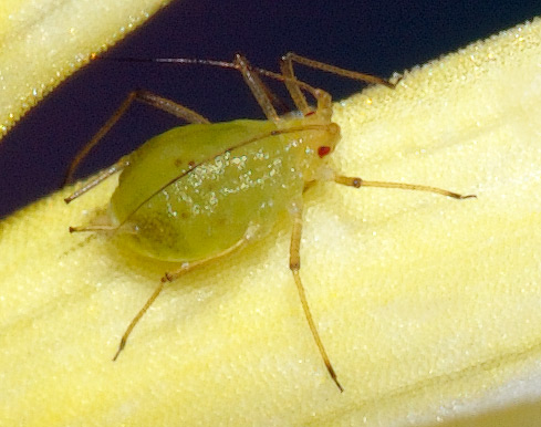 This image shows an only 2.2 mm small aphid of the aphididae family.